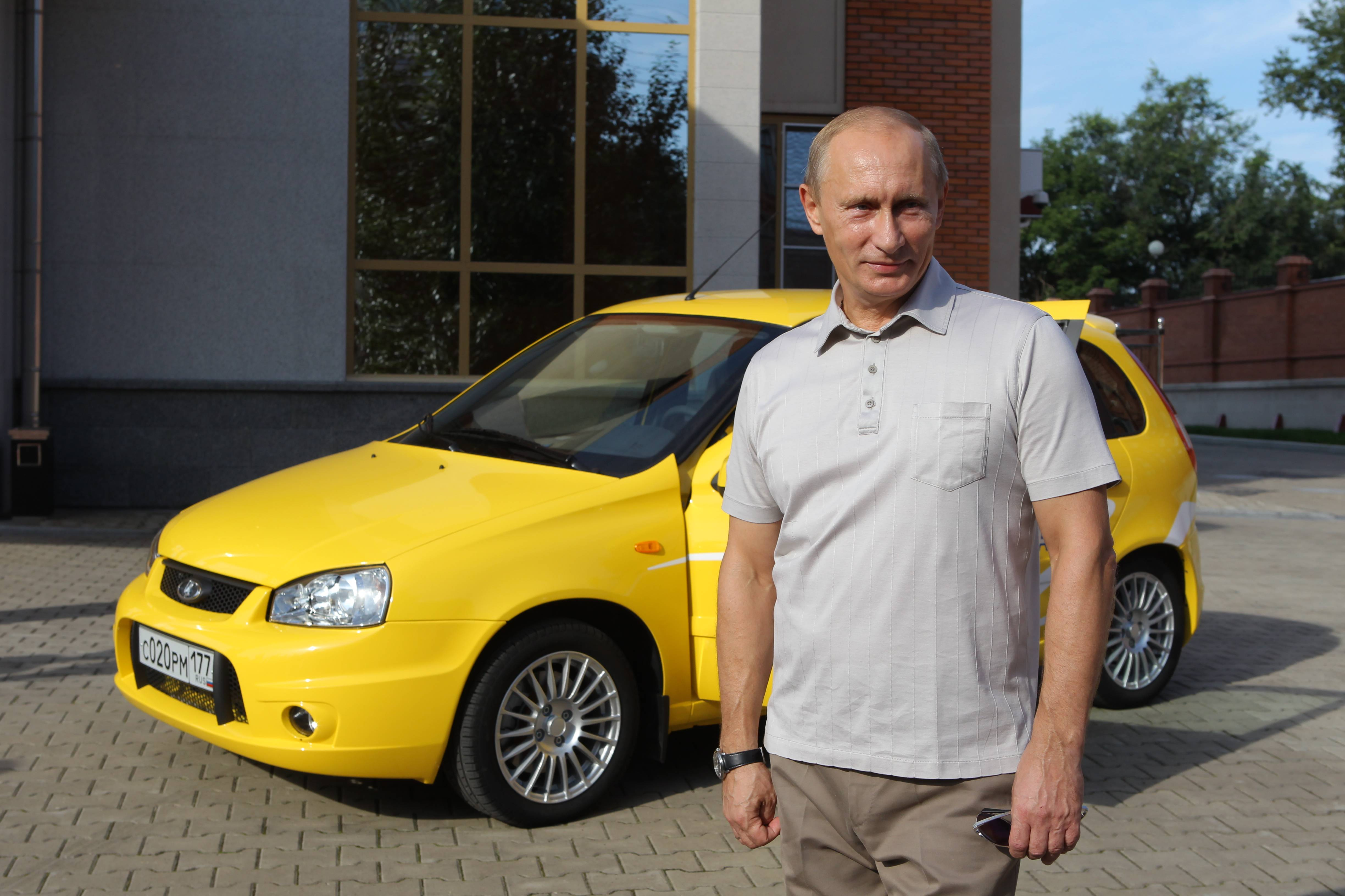 Putin drives a yellow Lada Kalina through the Amur Highway, August 2010